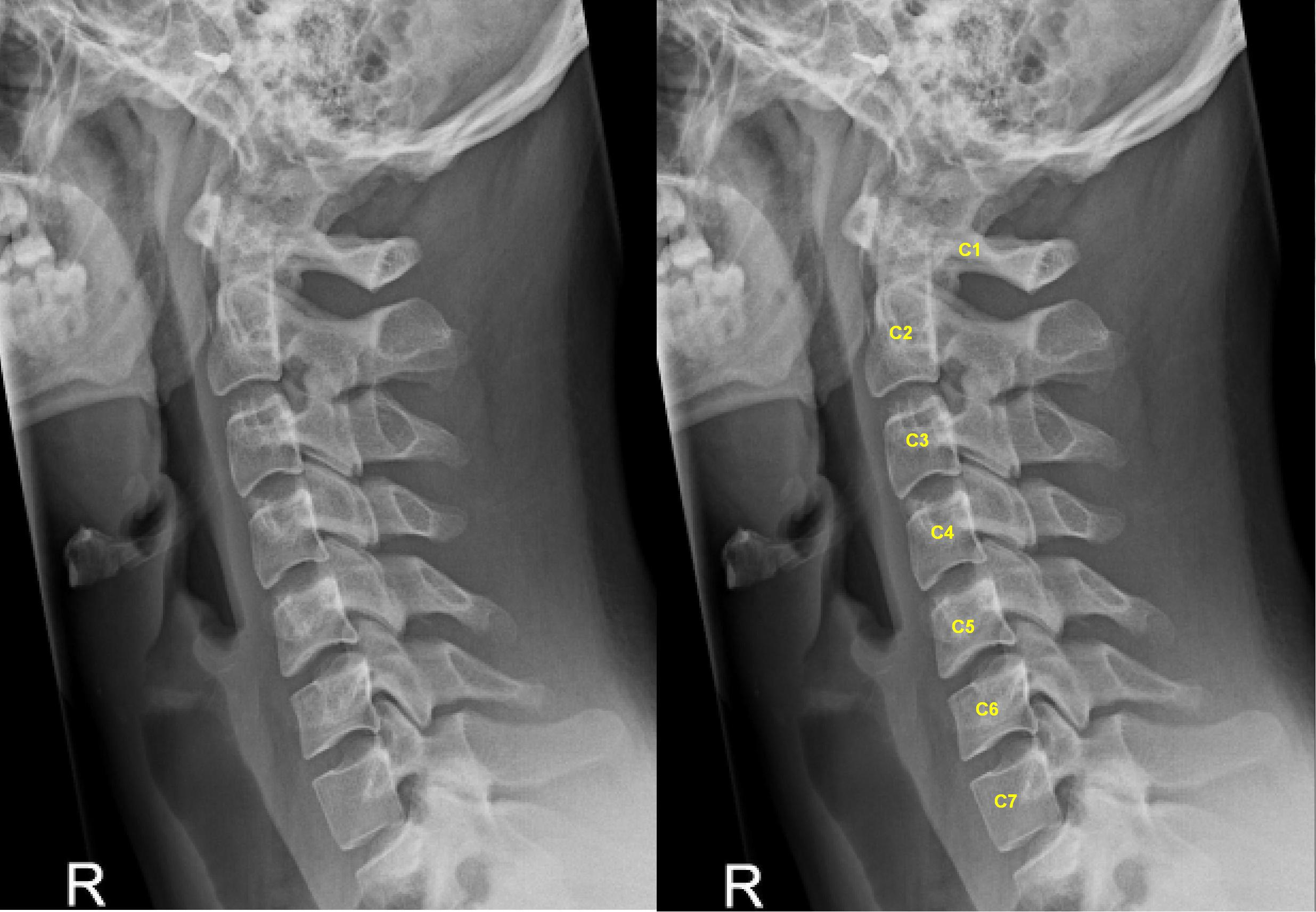 X-ray of the cervical spine, lateral view. Left without, right with annotation.